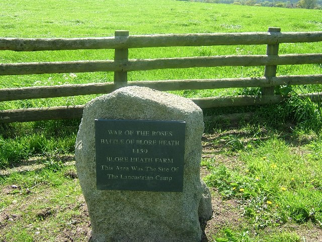 Blore Heath Plaque. Commemorating the Battle of Blore Heath, part of the Wars of the Roses.